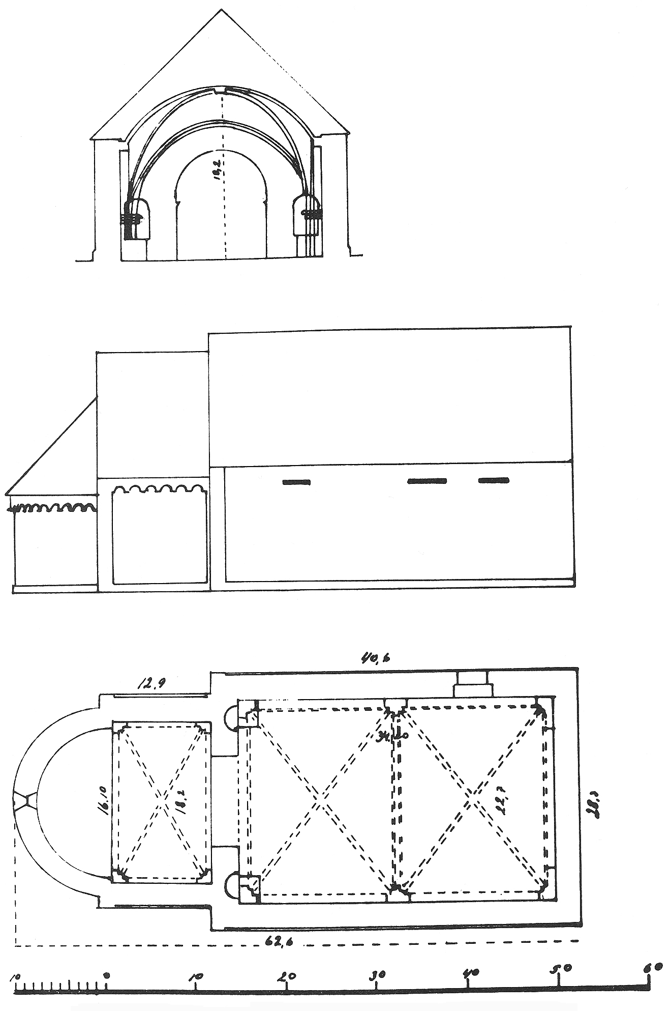 The old church at Äspö, Sweden